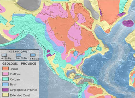 Geologic provinces of North America. For further details see file description of World geologic provinces.jpg.